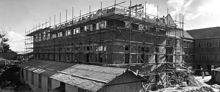 Nundah State School, Additions.